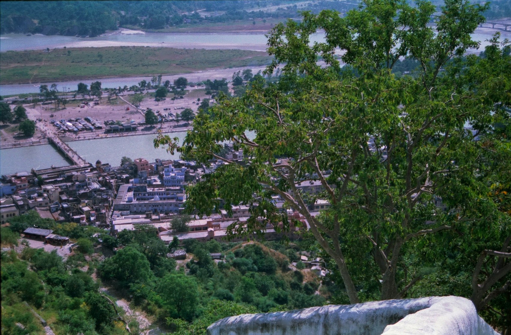 The main Ganga (top), and the Ganga canal (below), Haridwar, 1995, (view from the hills above)